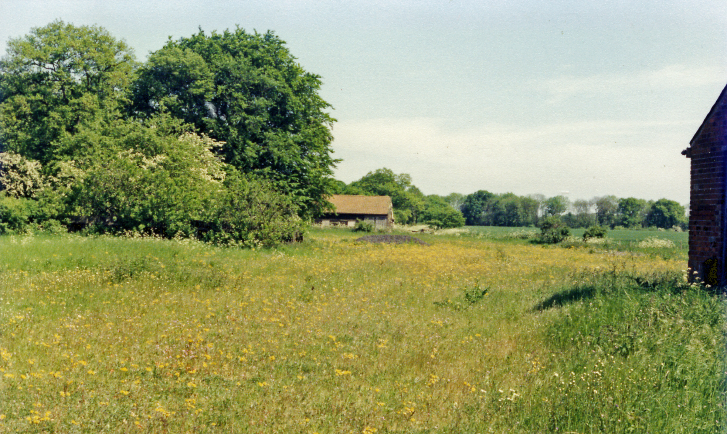 Site of Capel station, 1984. View SE from A12 road, towards Bentley: ex-Great Eastern Bentley - Hadleigh branch. The station and branch were closed to passengers 29/2/32, but total closure was not until 19/4/65. Nothing to be seen in 1984 - except possibly the building on the right?